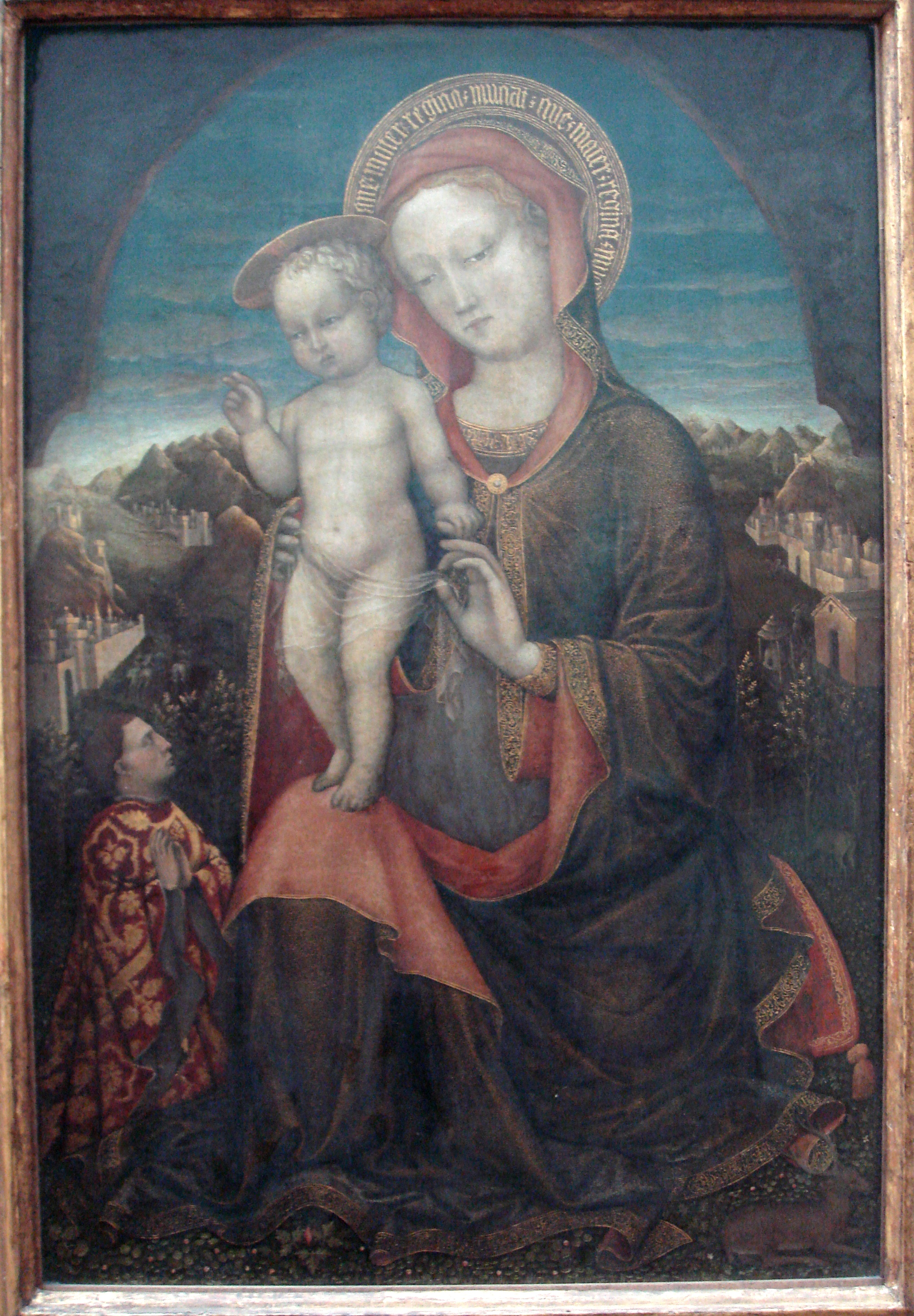 long identified as Leonello d'Este, perhaps one of his brothers, Ugo or Meliaduse detail